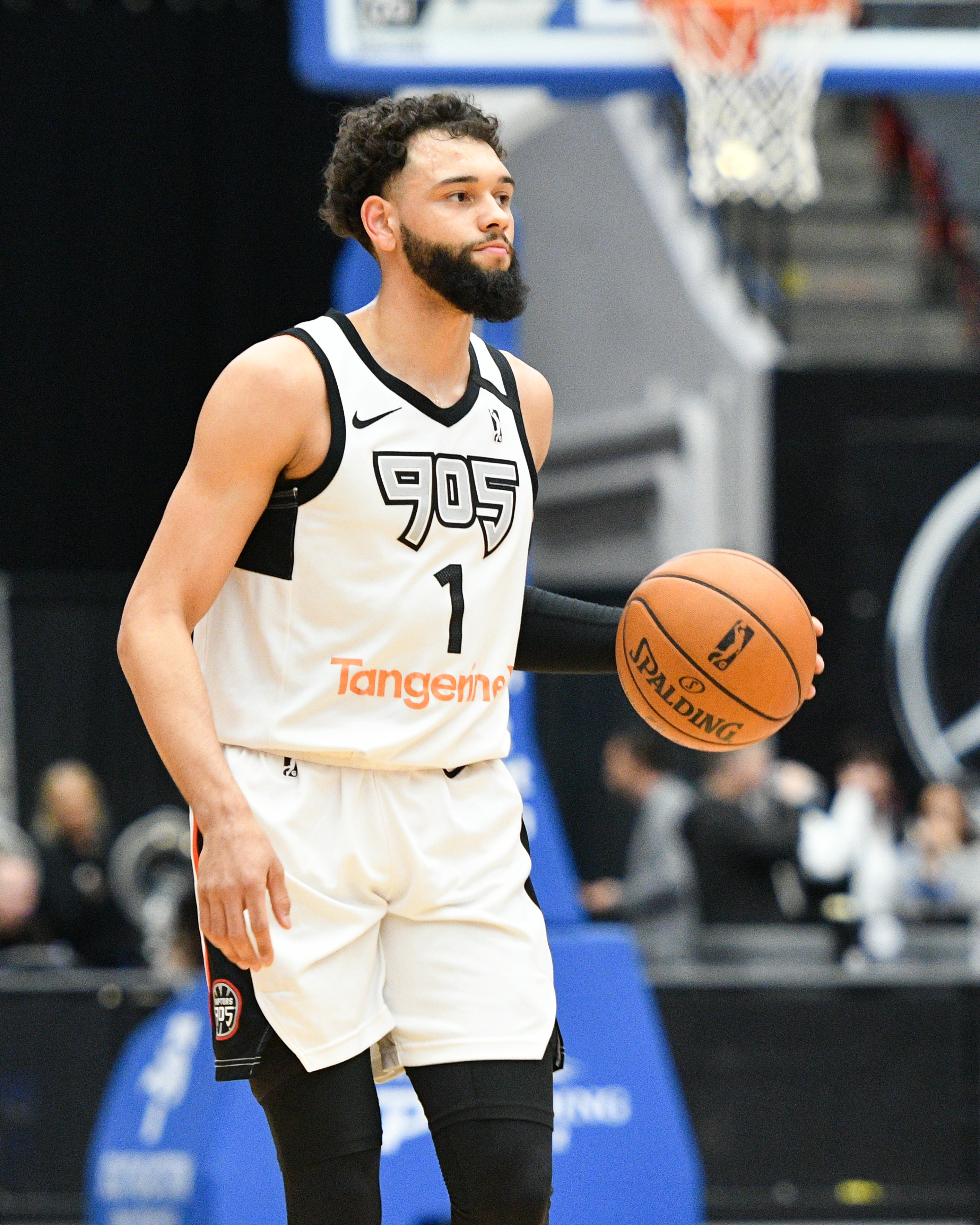 Tyler Ennis. Lakeland Magic vs Raptors 905. RP Funding Center. Lakeland, Fla. Feb. 7, 2020. (Photo by Tom Hagerty.)